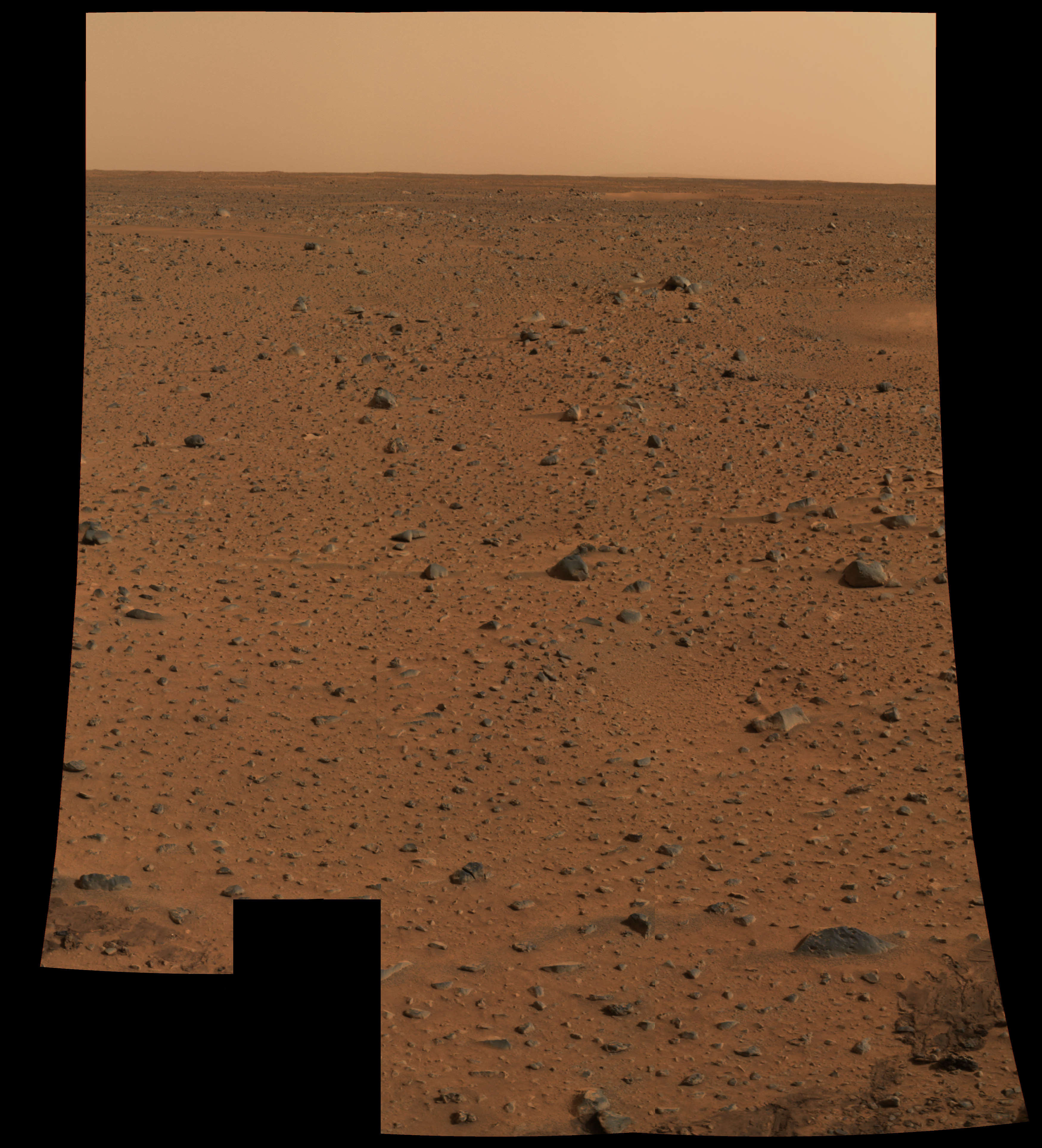 This is the first color image of Mars taken by the panoramic camera on the Mars Exploration Rover Spirit. It is the highest resolution image ever taken on the surface of another planet.